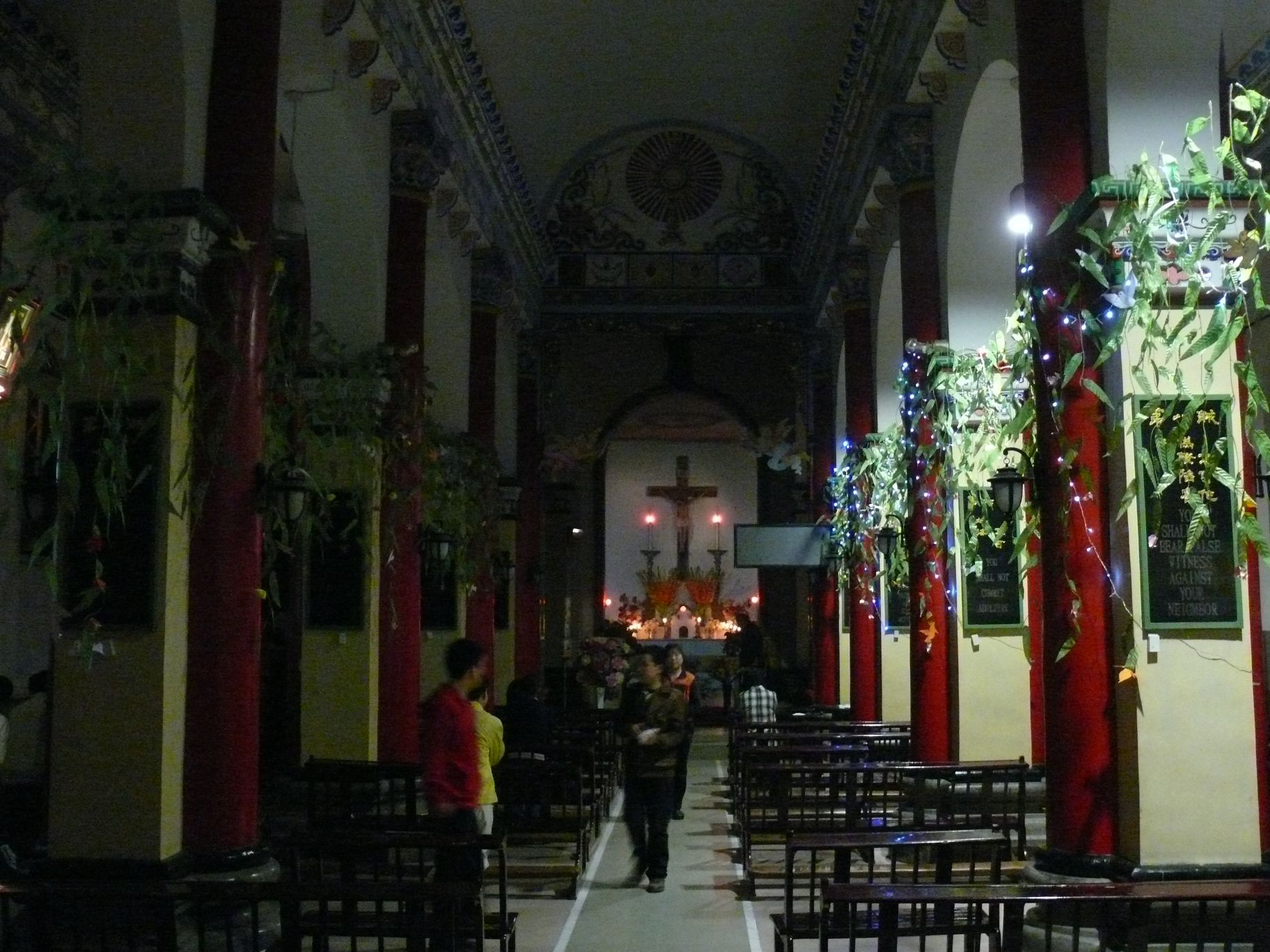 Saint-Francis' cathedral of Xi'an (Shaanxi, China)